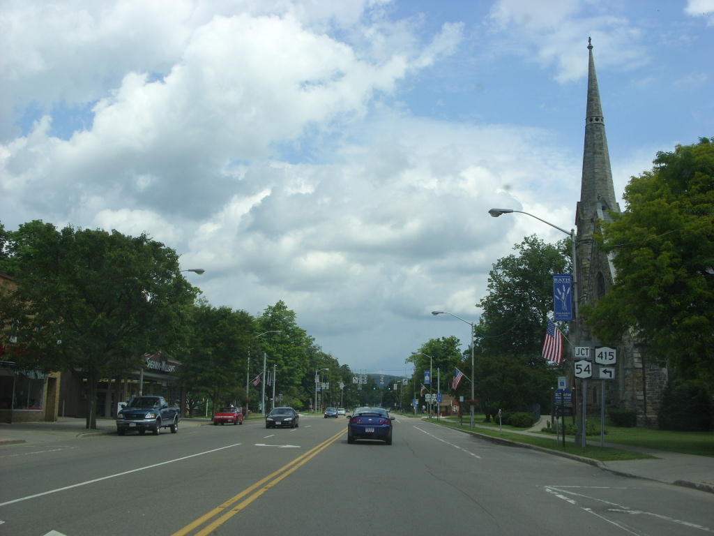 New York State Route 415 northbound at the junction with New York State Route 54 in Bath village.